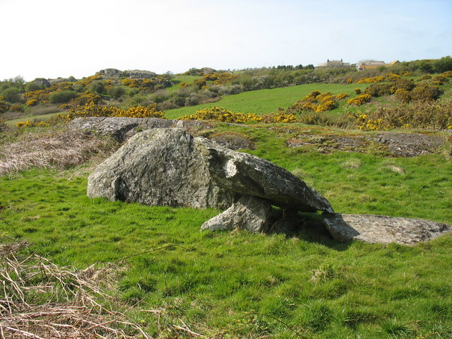 Din Dryfol. A view westwards. 784906